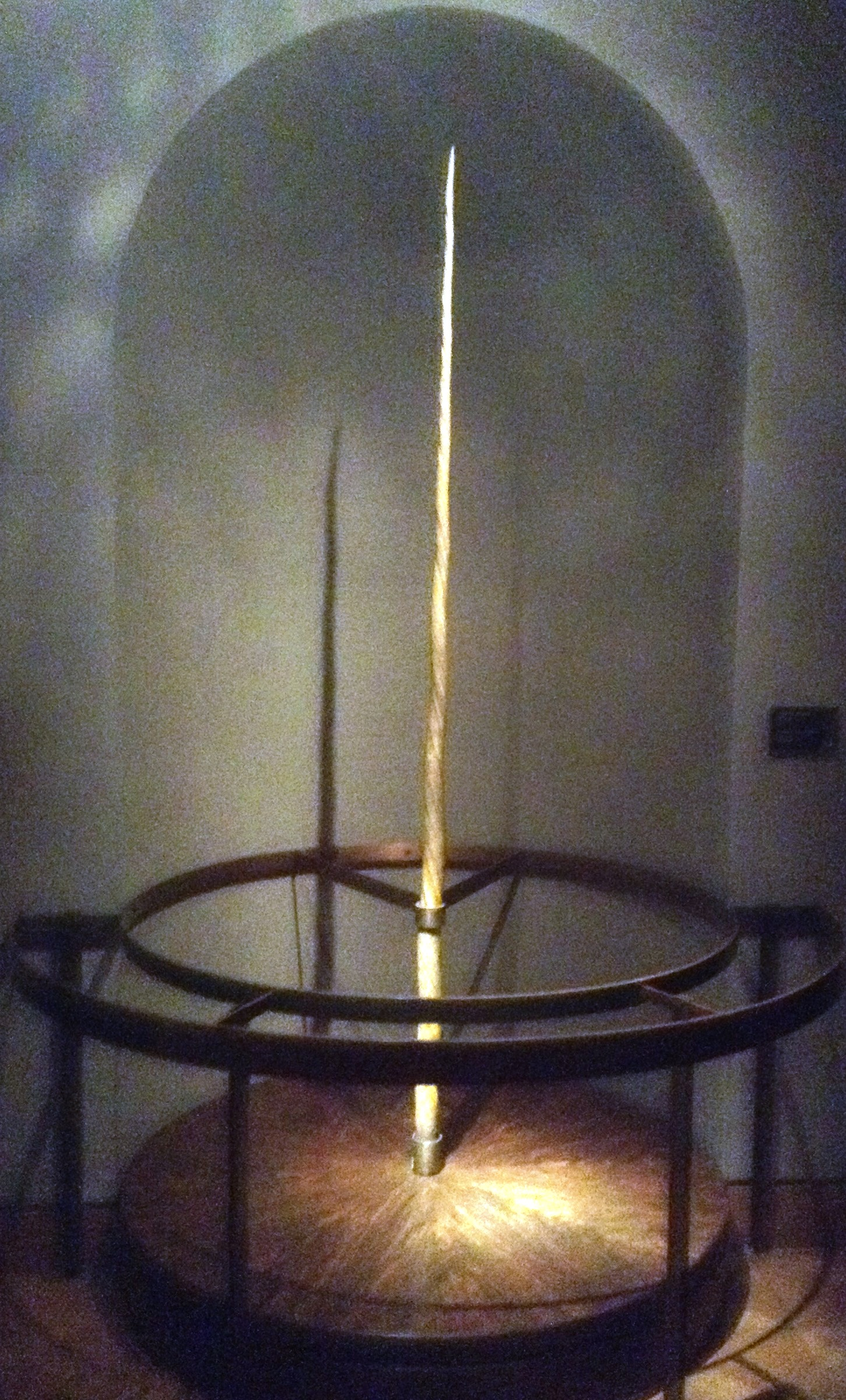 Claimed unicorn horn from Achatschale, Schatzkammer in Vienna